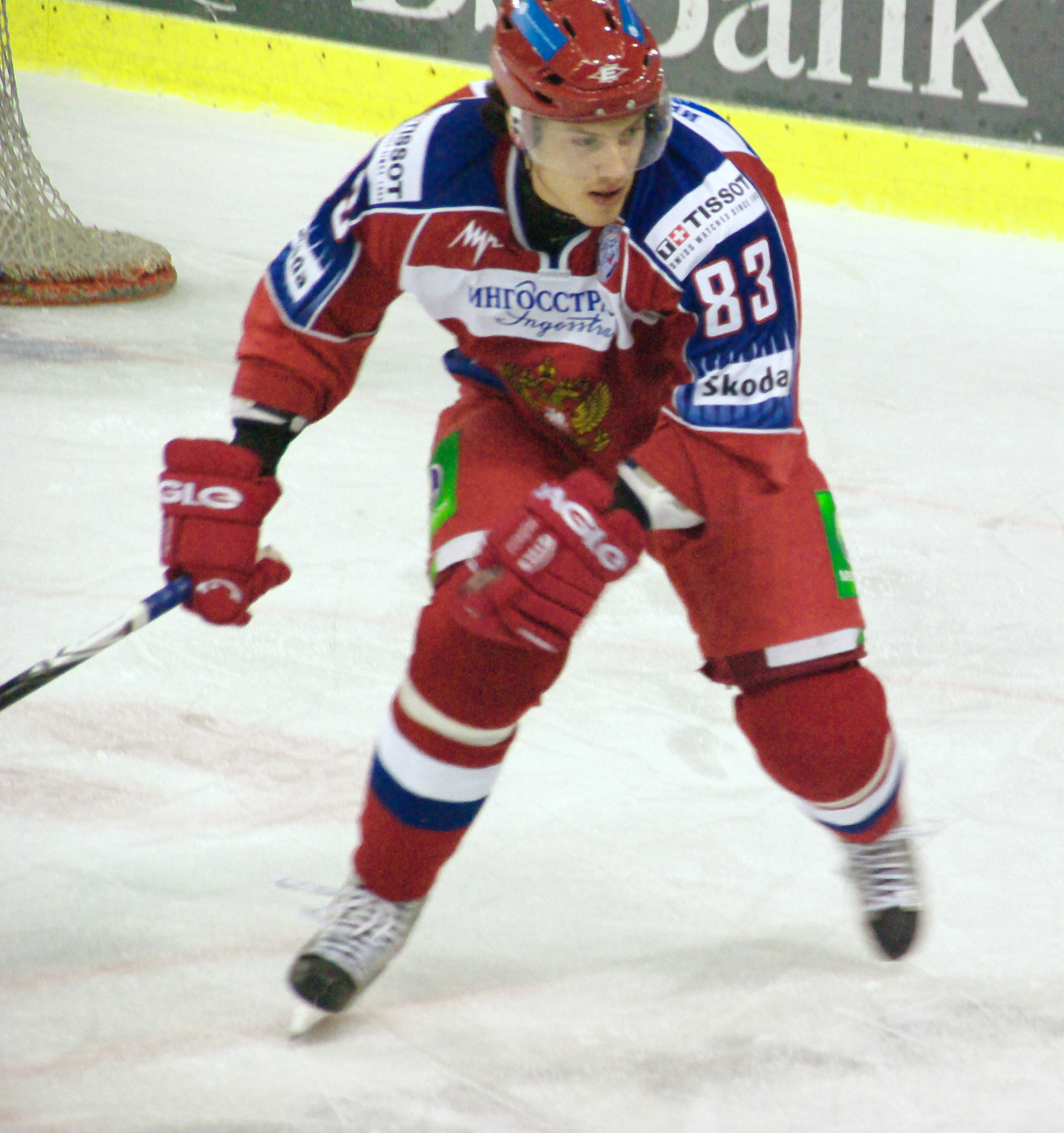 Andrei Kiryukhin during match Russia B - Ukraine (EIHC Tournament in Sanok, Poland)